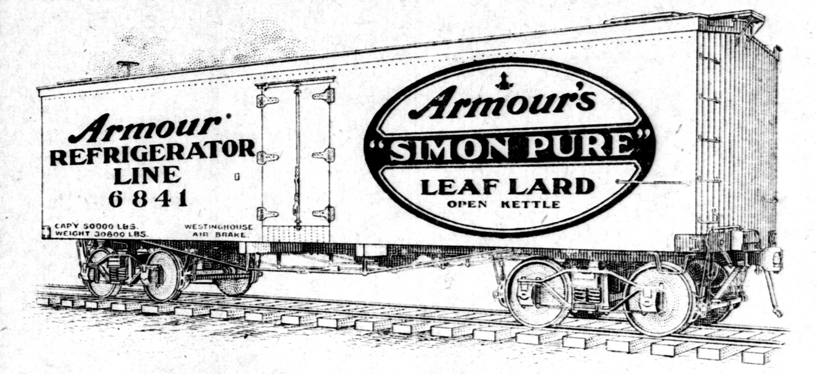 An Armour Leaf Lard advertisement on a railway car.